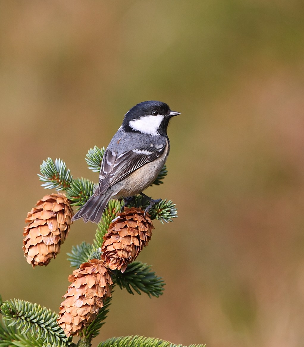 From Lista, Norway